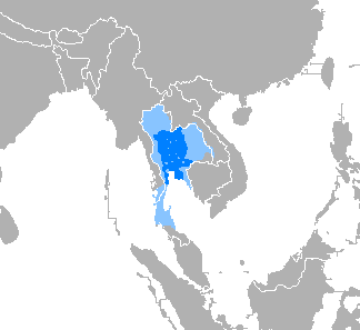 Map of the Thai language: Where it is the majority Where it is the minority